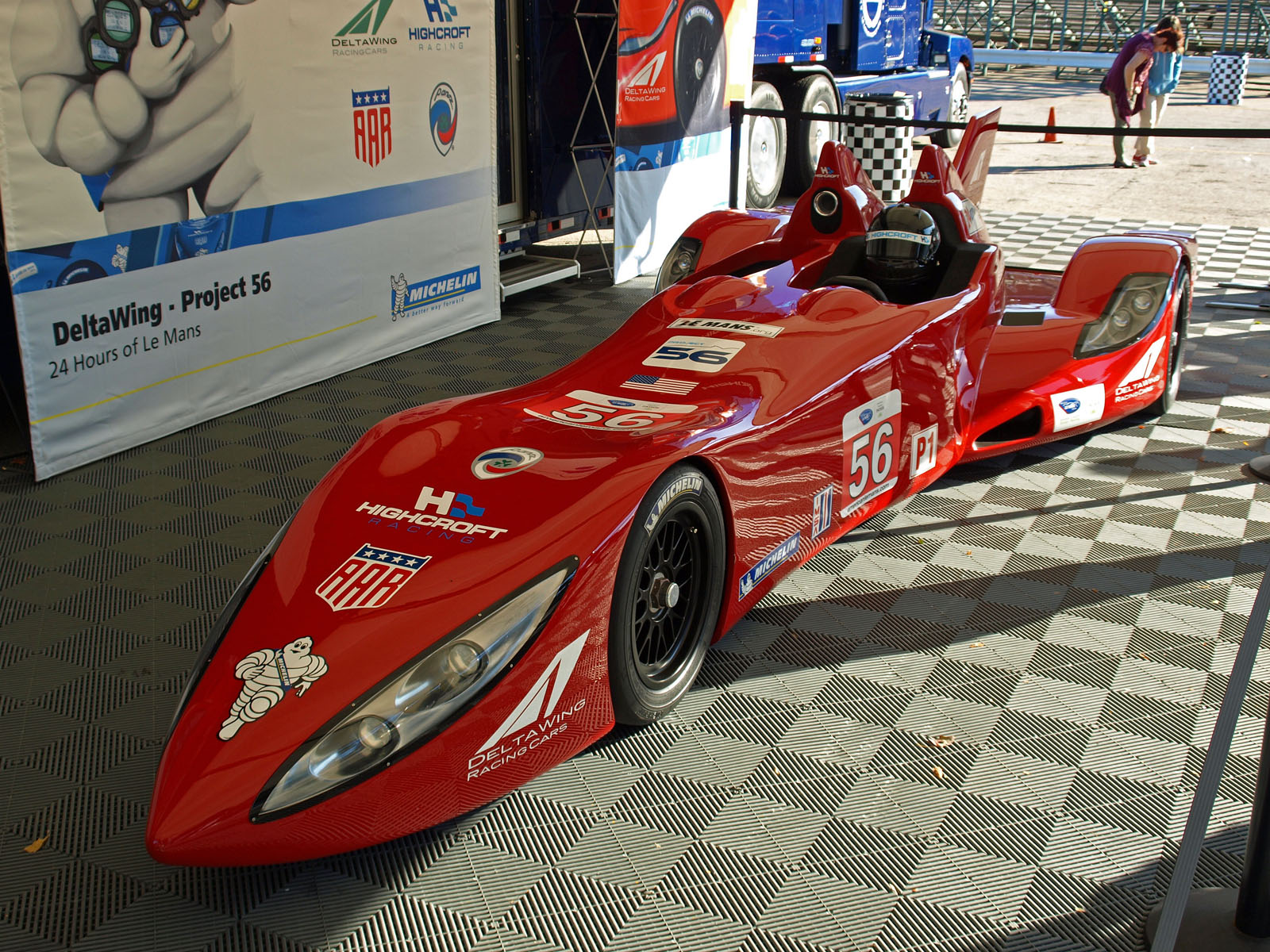 The DeltaWing on display at the 2011 Petit Le Mans at Road Atlanta.